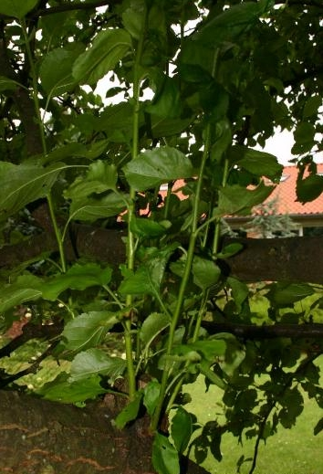 Watershoots on an appletree